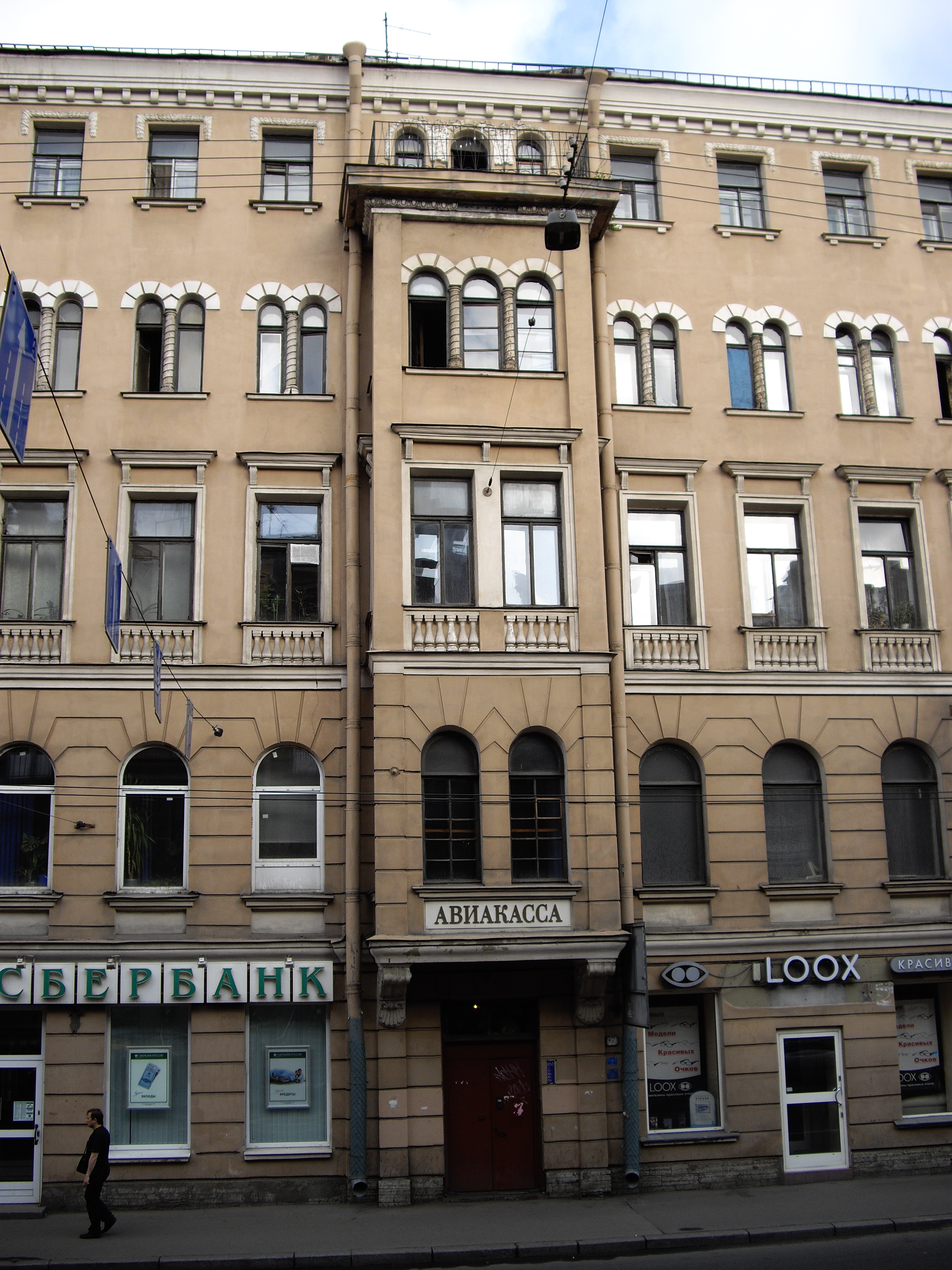 90, Bolshoy Prospect P.S. (Grand avenue of the Petrograd side), Saint-Petersburg, Russia. Architect Pavel Mulkhanov, 1899.